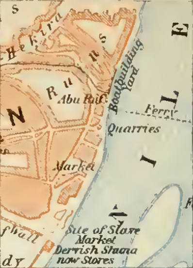 The Abu Ruf quarter of Omdurman, named after the Greek merchant George Averoff, who is still widely considered a "philantropist", but was involved in slave trade in Sudan. The quarter is still today named after him. Cropped from 1914 Baedeker Egypt & Sudan map of Khartoum and Omdurman.